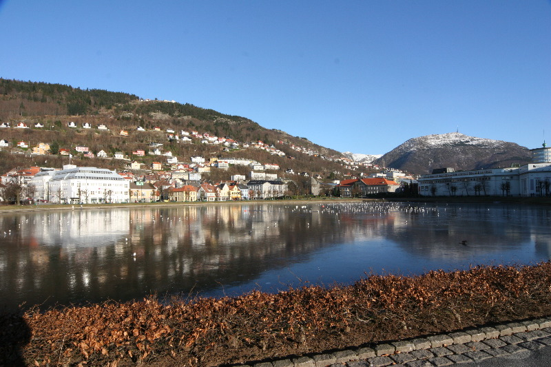 The small lake Lille Lungegaardsvann in Bergen (Norway)